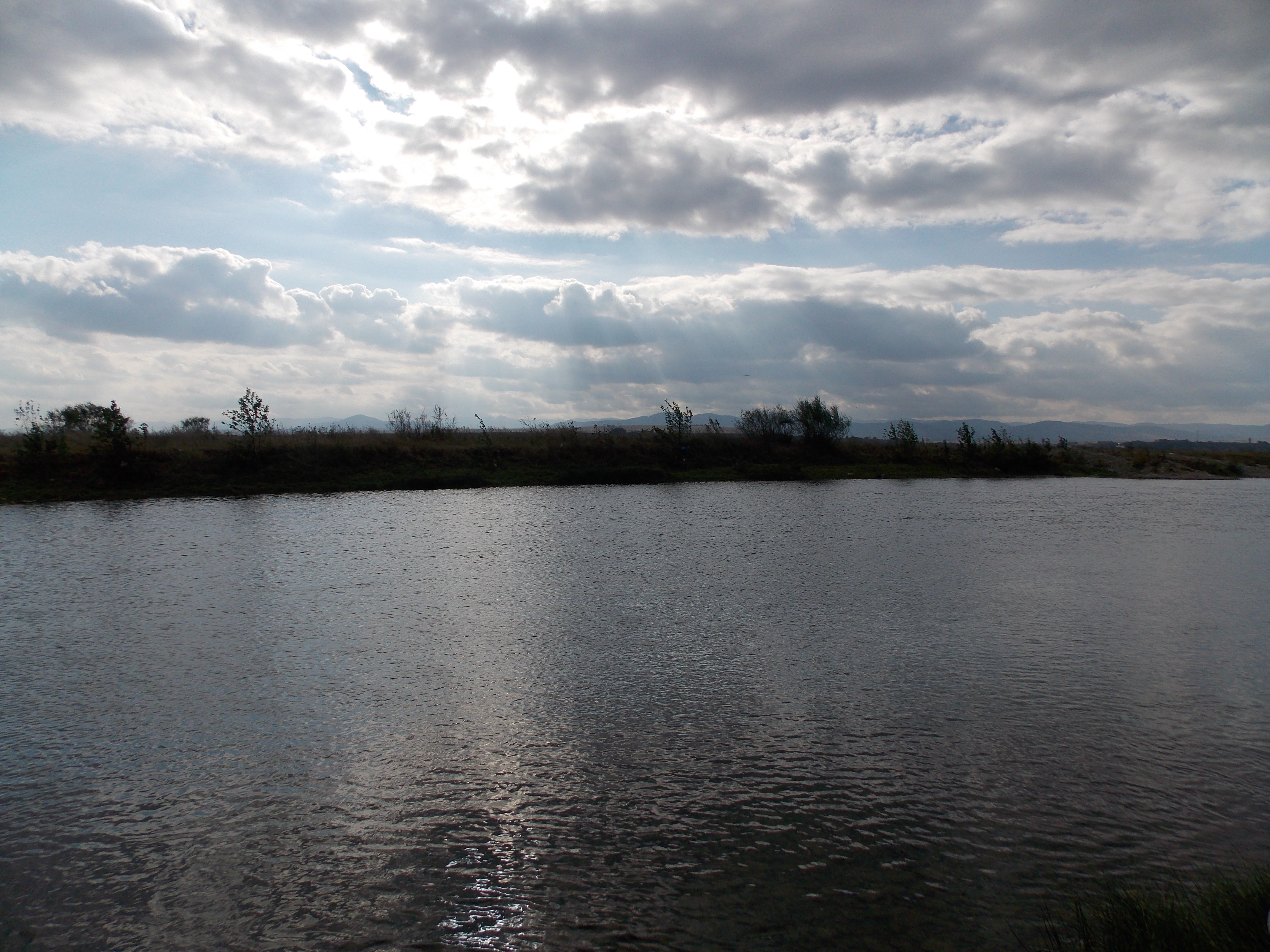 Bistrița River near Podoleni village, 700 m from the ruins of the Bociuleşti Monastery